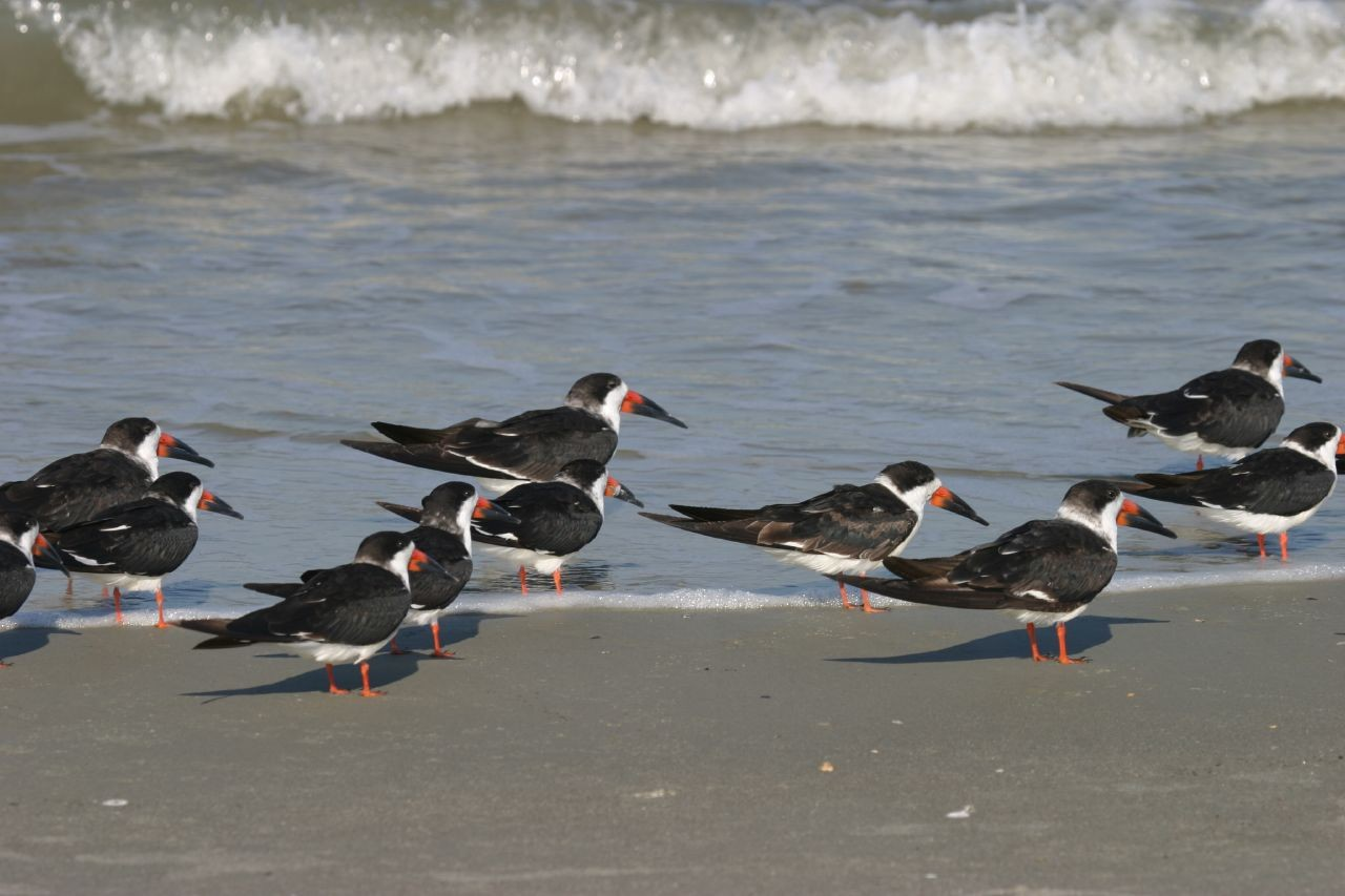 folk of Black Skimmers at Tybee Beach